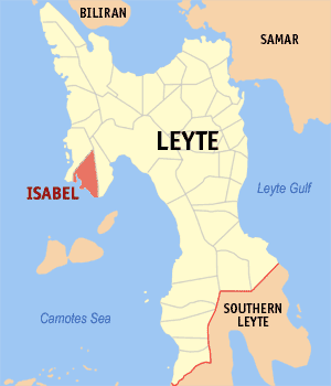 Map of Leyte showing the location of Isabel